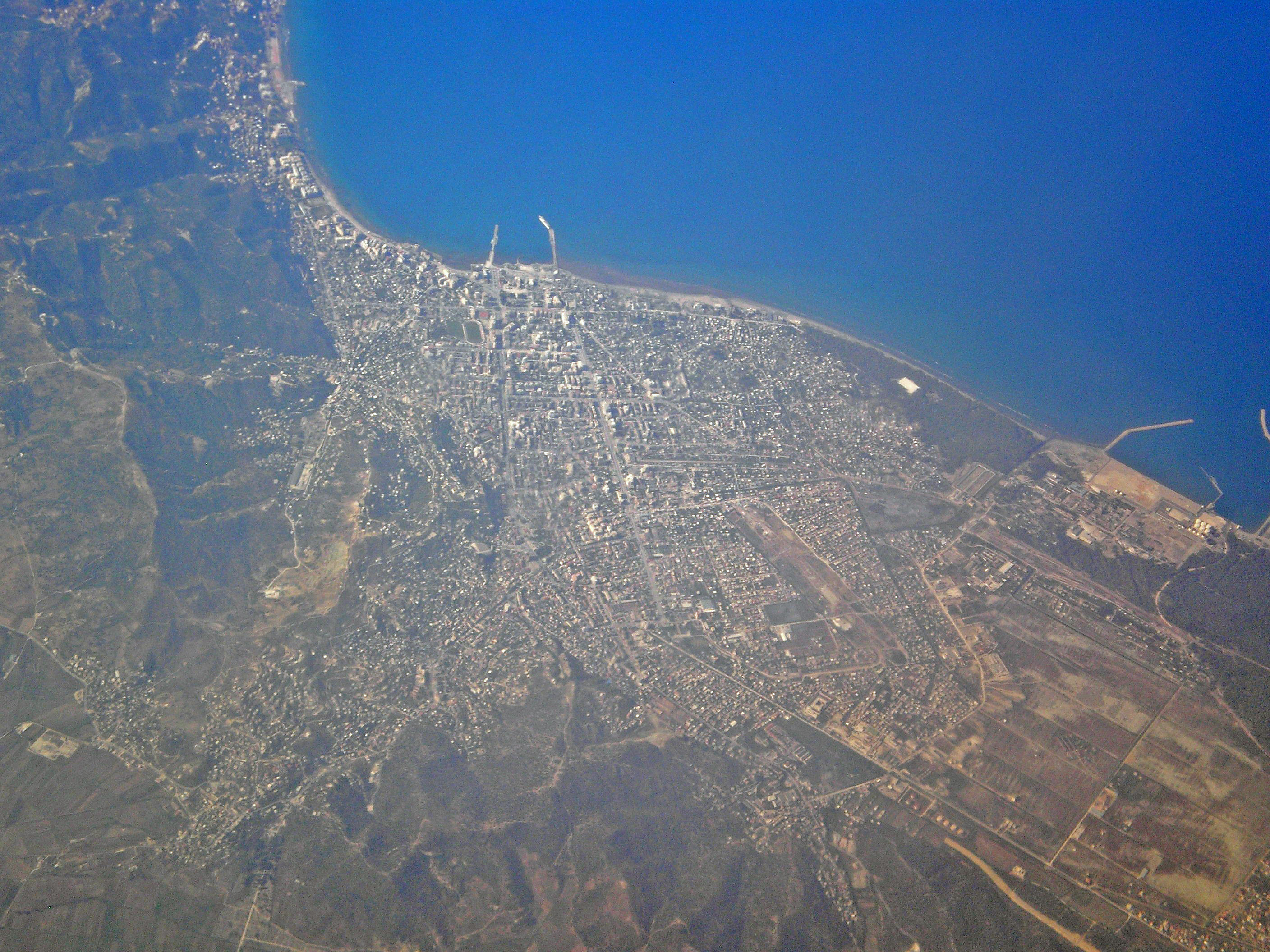 Aerial view (from the north) of Vlorë, Albania.